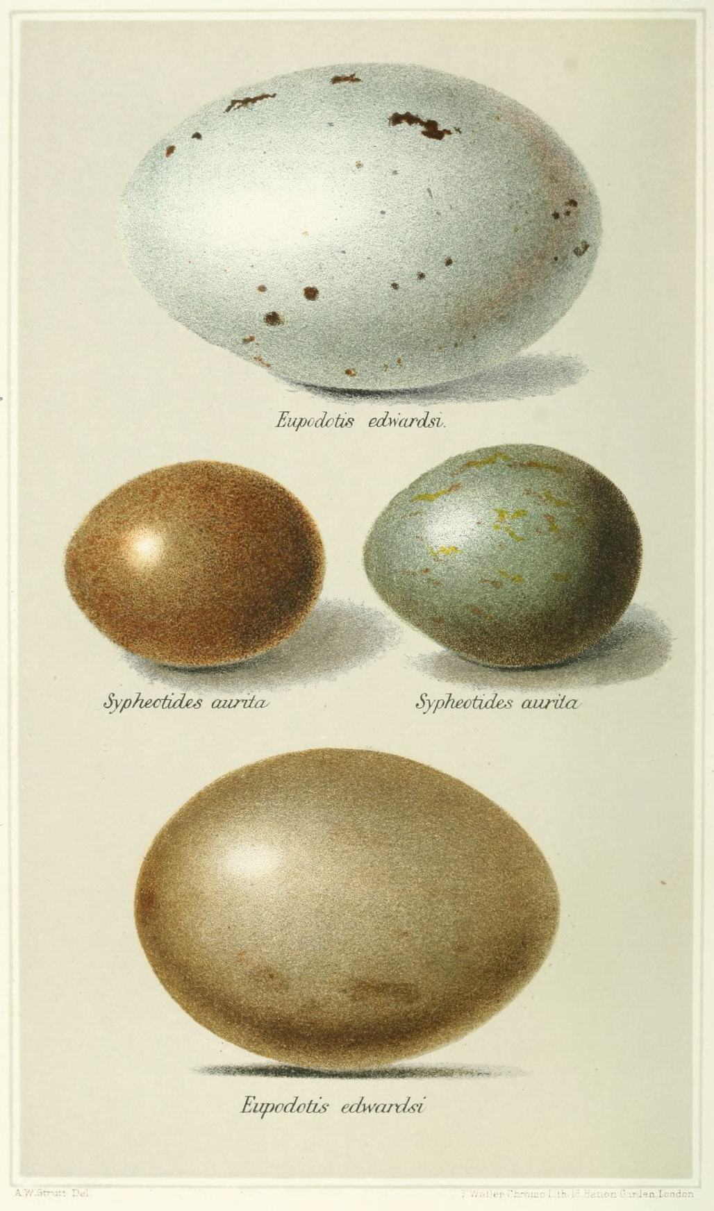 Eggs of bustards